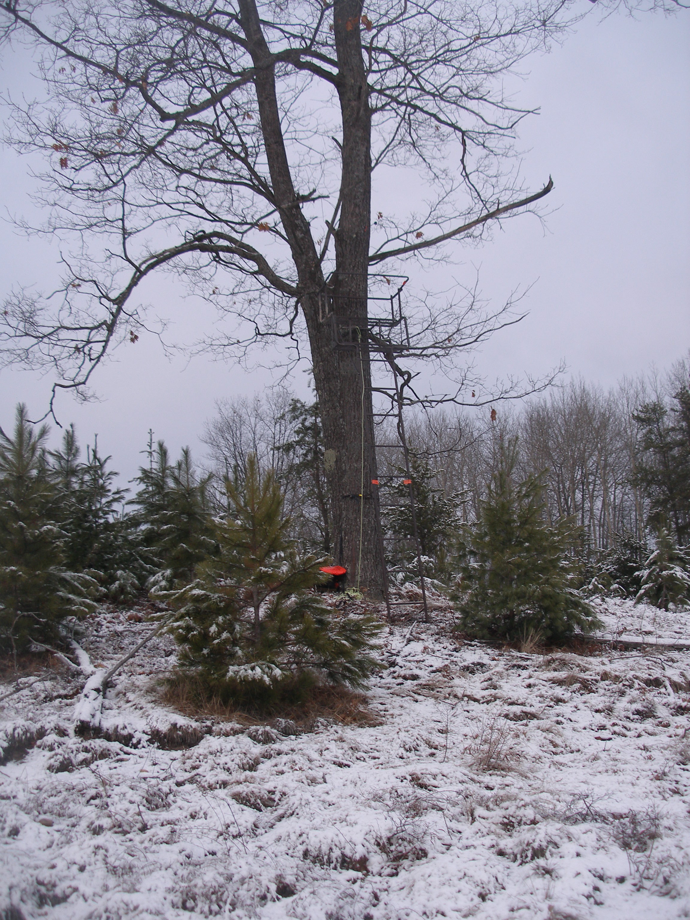 A 15-foot 4-inch two-person tree stand. This stand is set up for deer hunting in the Hiawatha National Forest in Michigan's Upper Peninsula.